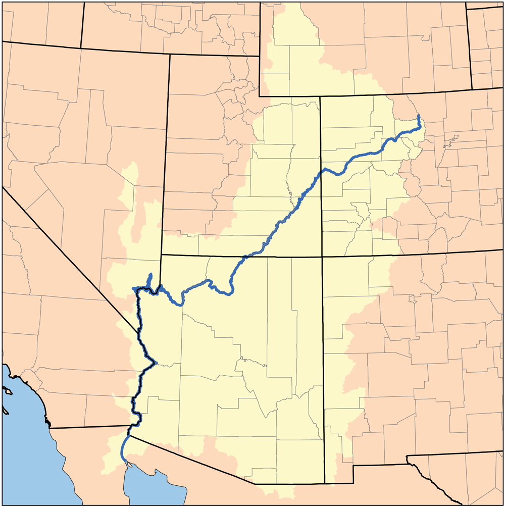 DESCRIPTION Map of the Colorado River course and Colorado River Basin watershed — in the Western United States.